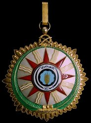 iraqi order of the republic